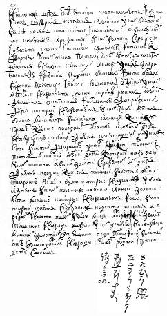 Writing of Dembei or Denbei. 18 century fisherman from Osaka, who lived in Russia